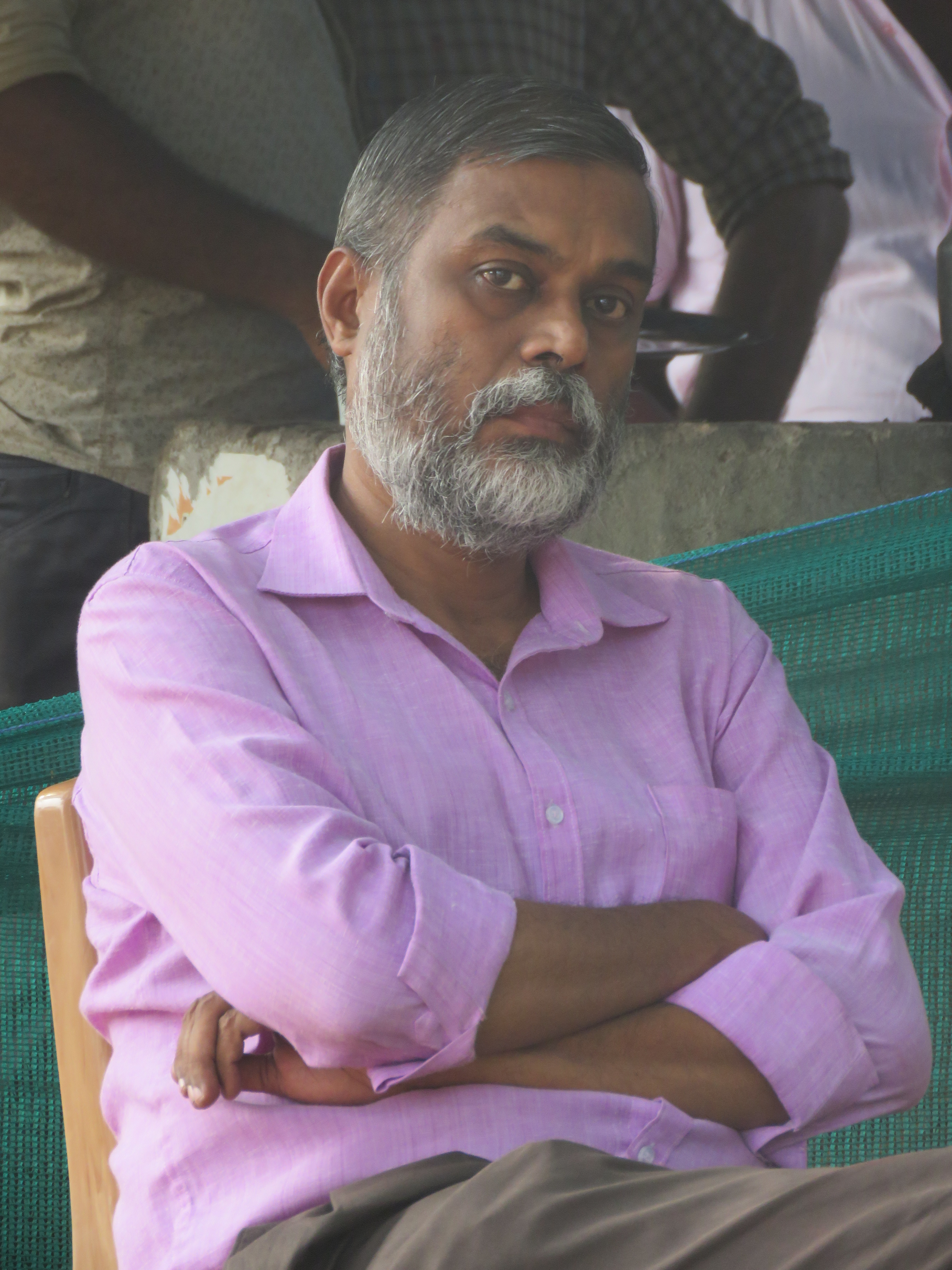 Photos from Peravoor 2018